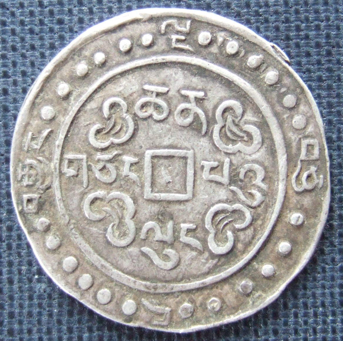 Sino-Tibetan silver sho, dated 58th year of Qian Long era, reverse